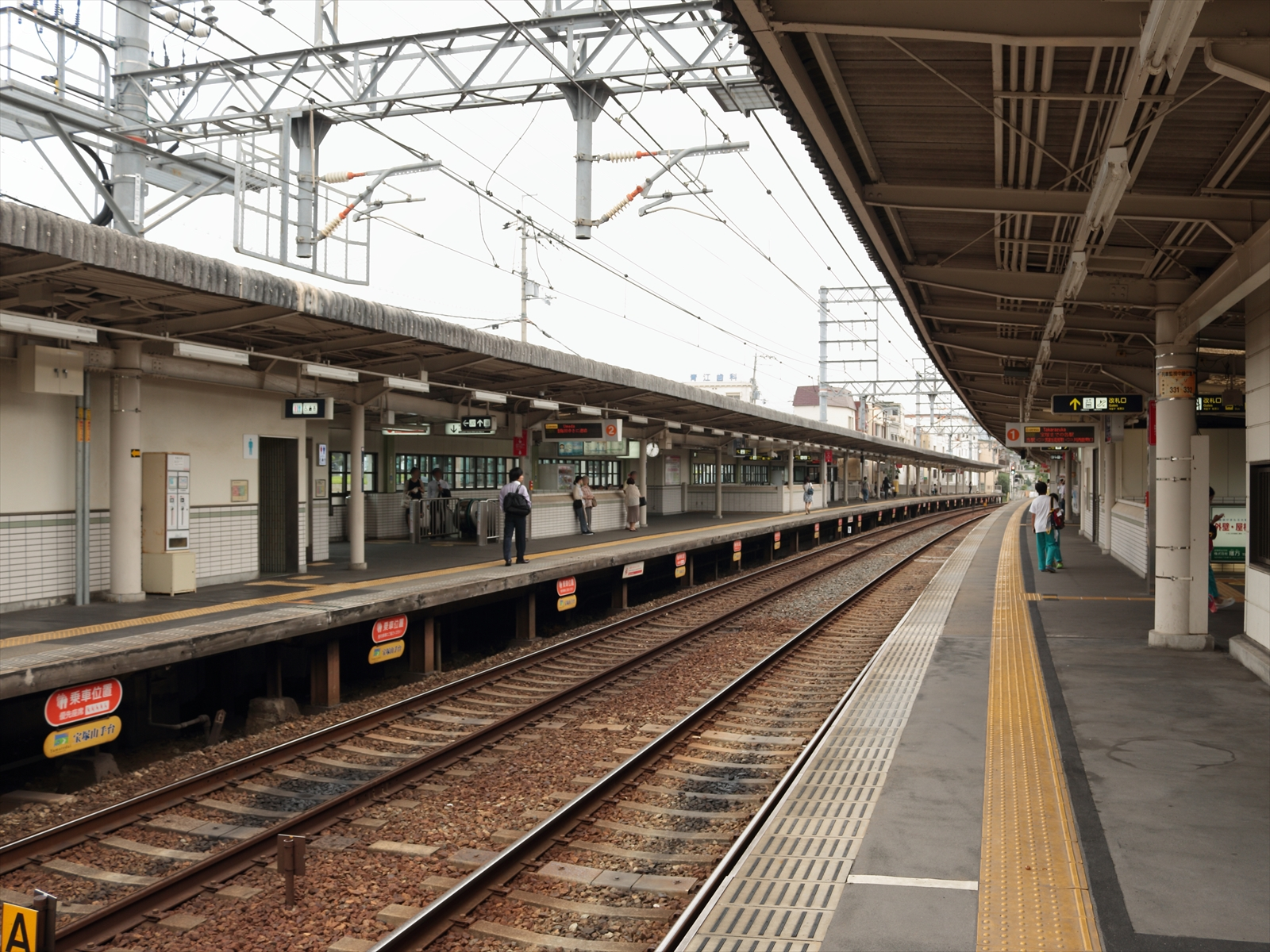 Platfrom from Yamamoto Station (Hankyu).